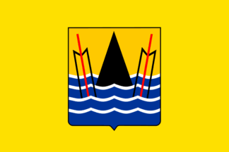 Pointe-Noire city (Republic of Congo) flag The flag of Pointe-Noire has a yellow field with the city Coat of Arms in colour in the centre. Pointe-Noire is the second largest city in the Republic of Congo. It is located in the east of the country on the Atlantic Ocean. It is the centre of the oil industry and is the Congo's main port.